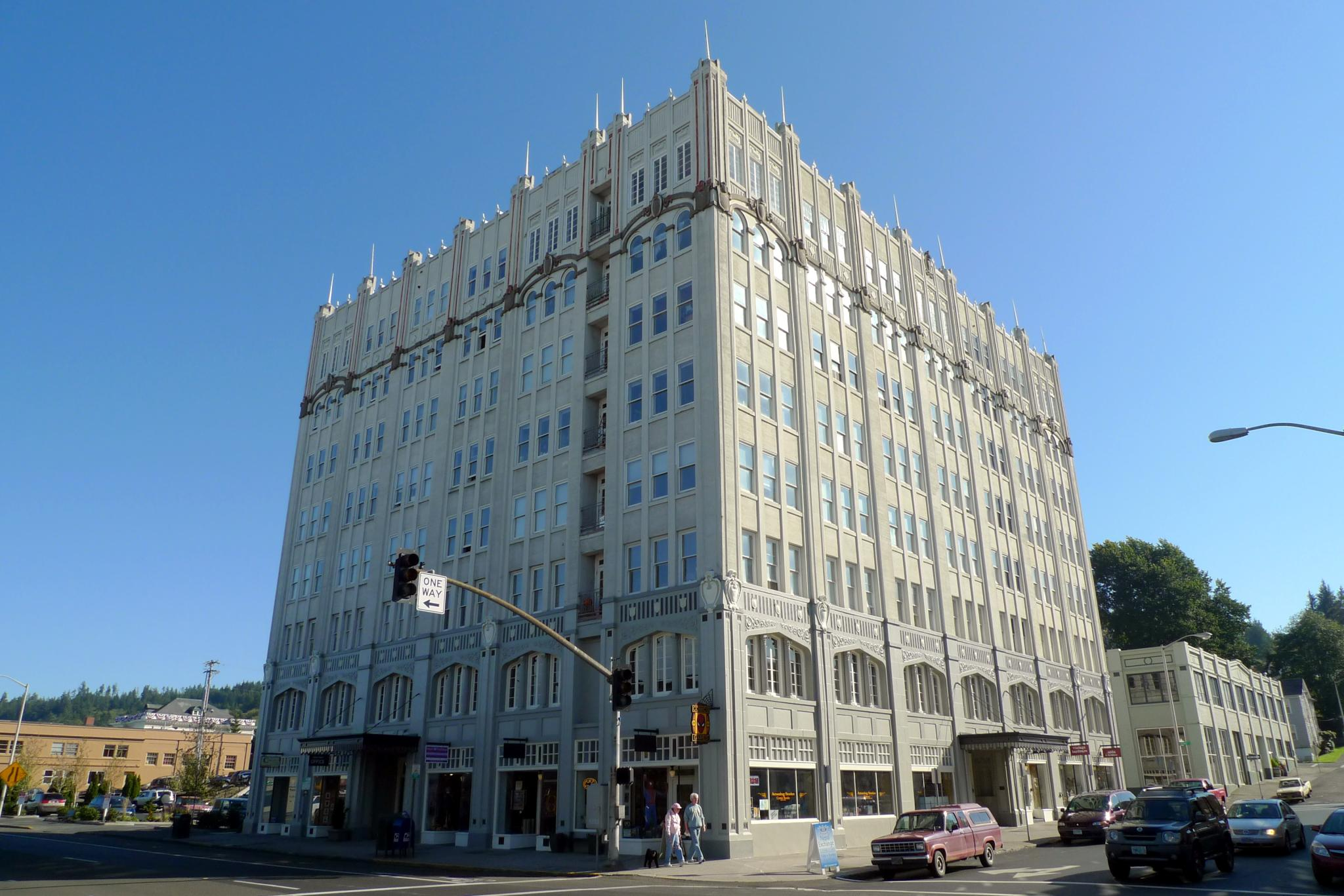 The former John Jacob Astor Hotel (now an apartment building) in downtown Astoria, Oregon, viewed from the northwest. The building is L-shaped, not square, and this view from across the intersection of 14th St. and Commercial St. shows its two long sides, whereas its south and east sides are less than half as wide. The narrow recessed area, with a small open area at each floor except the first two, is where a fire escape was attached, until it was removed during renovation work in the mid-1980s.